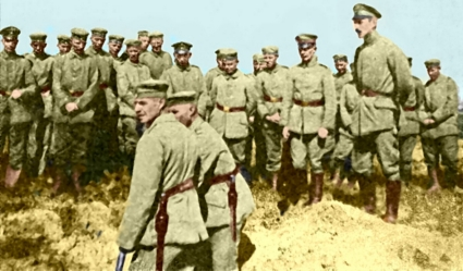 Finnish 27th Jäger Battalion. Course participants blasting exercises. Front right trainer Lieutenant Mellis. Location: Palanga (Liett. Palanga, Finnish: Polangen) in Lithuania, 20 km north of Klaipeda.